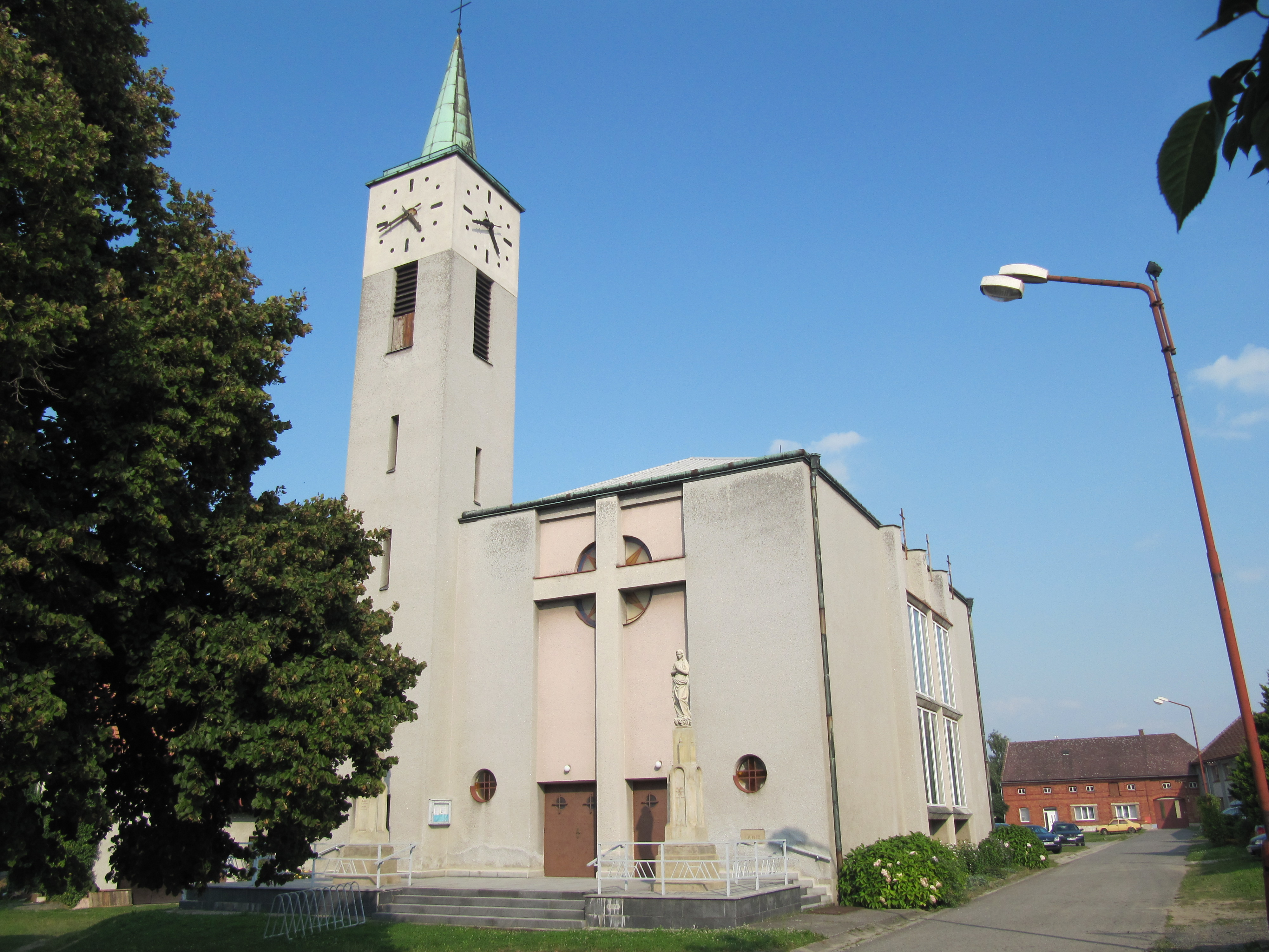 Radslavice in Přerov District, Czech Republic. Church of St. Joseph from 1932. This photograph was taken within the scope of the third year of the 'Czech Municipalities Photographs' grant.